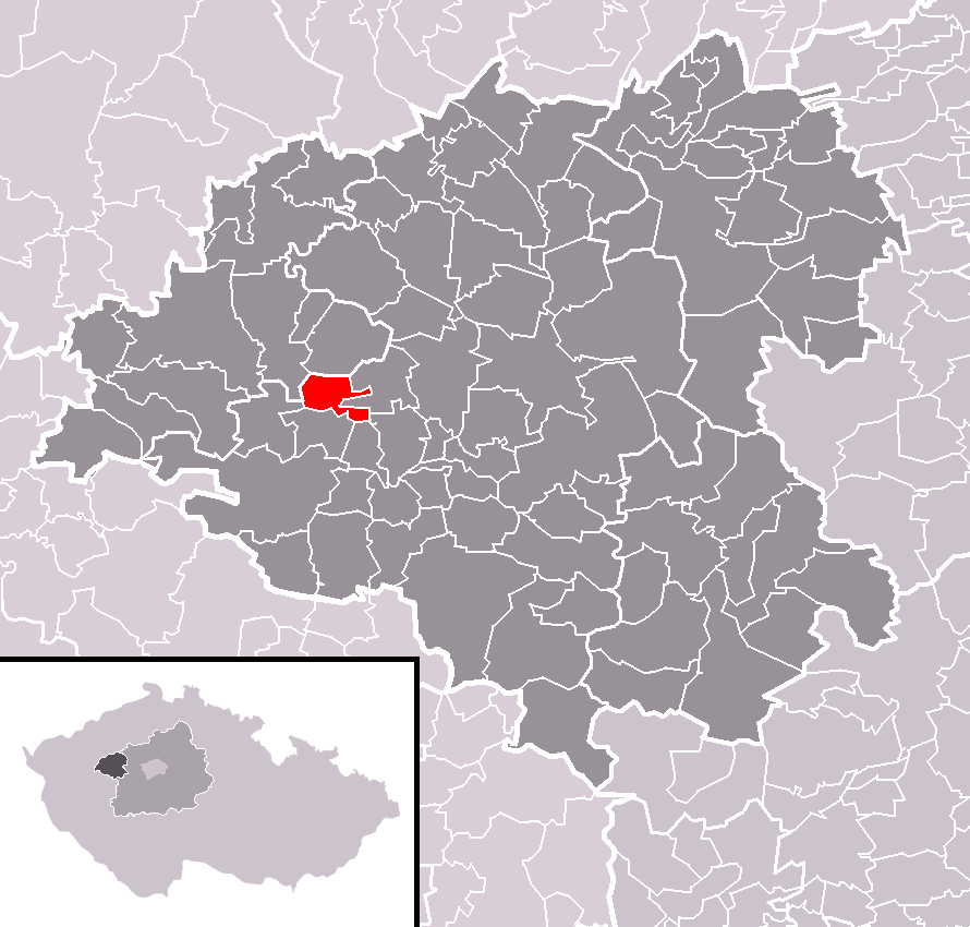 Location of Řeřichy municipality within Rakovník District and (identical) administrative area of Rakovník as a Municipality with Extended Competence.